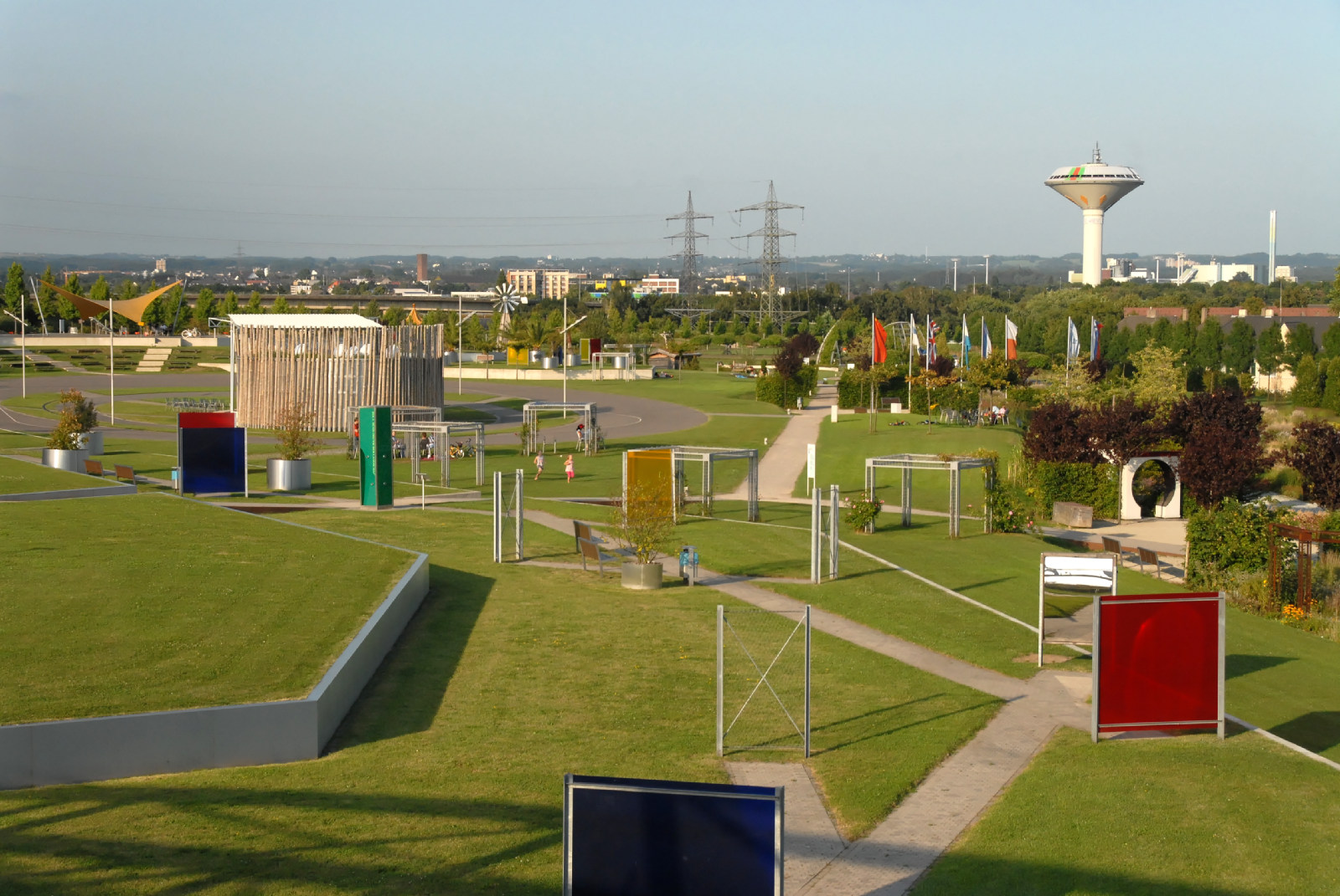 Neuland-Park in Leverkusen, Germany